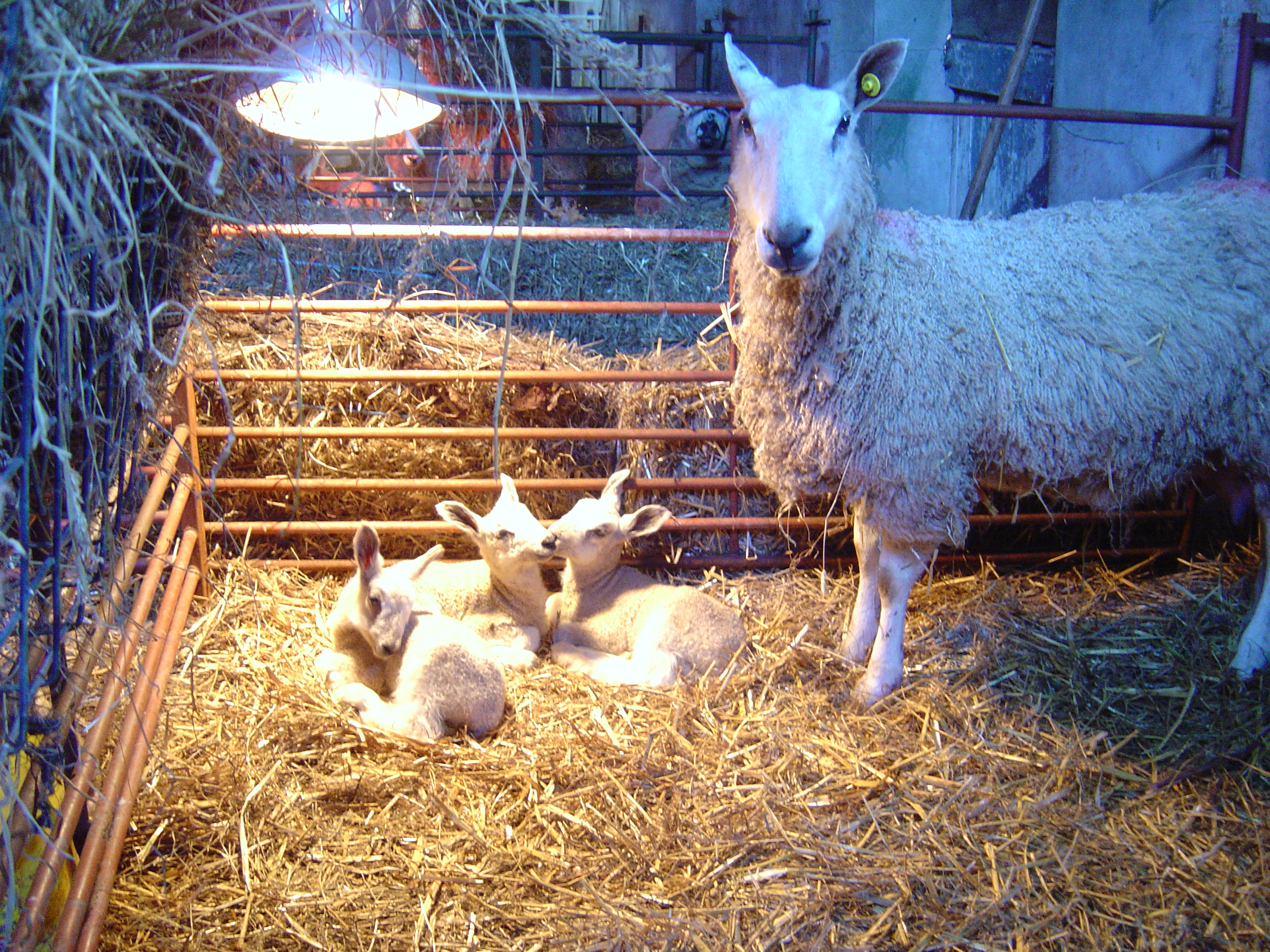 A Bluefaced Leicester ewe and her triplets in a lambing pen